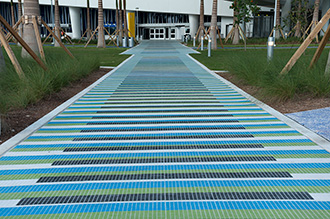 Chromatic Induction in a Double Frequency, (Inducción Cromática a Doble Frecuencia) en el Marlins Ballpark, Miami, Estados Unidos. 2012 - Dim. 1672,25 m2.